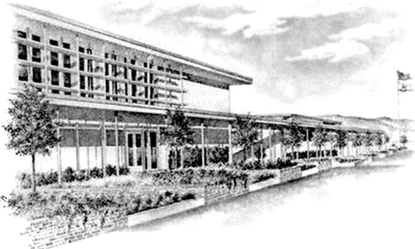 Camden High School in the Campbell section of San Jose, California circa 1970s, with appreciation to Tom.